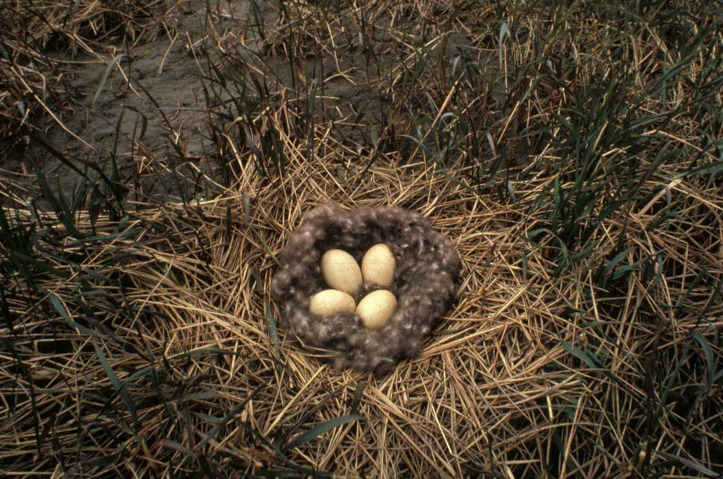 Black Brant (Branta bernicla) Nest